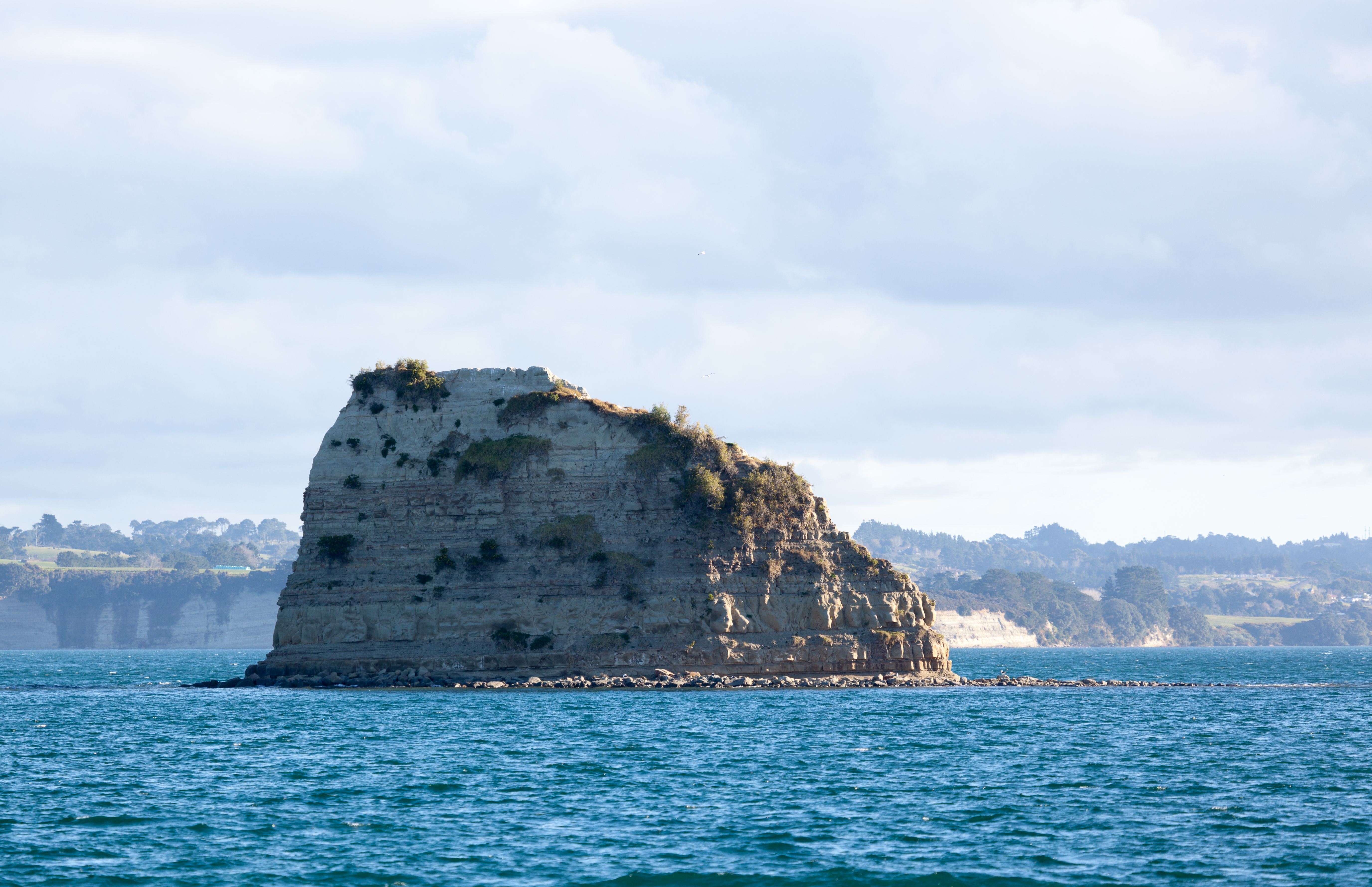 Kotanui Island, also called Frenchmans Cap, off Whangaparaoa Peninsula, New Zealand